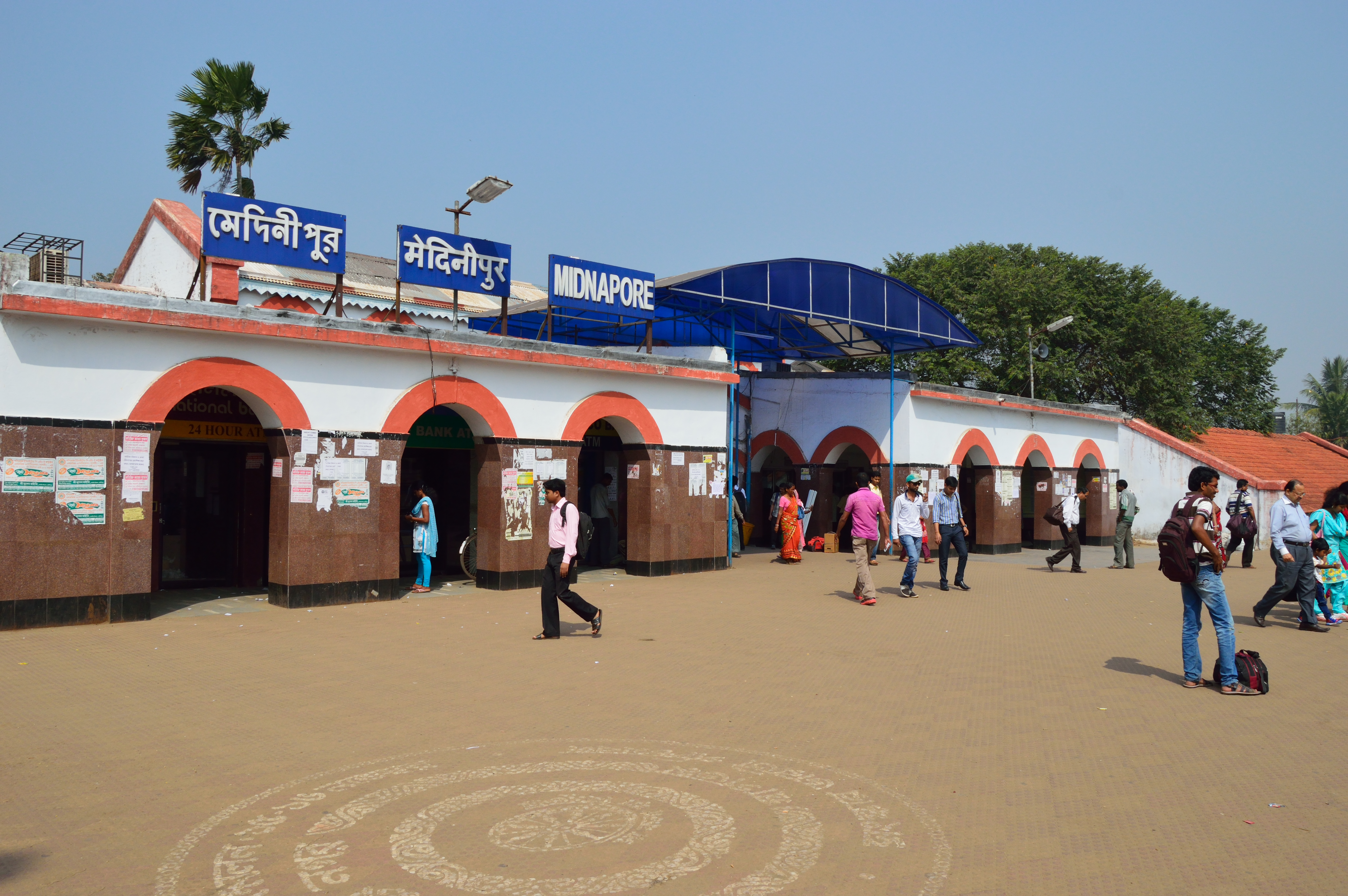 Photographed at West Midnapore or Medinipur.